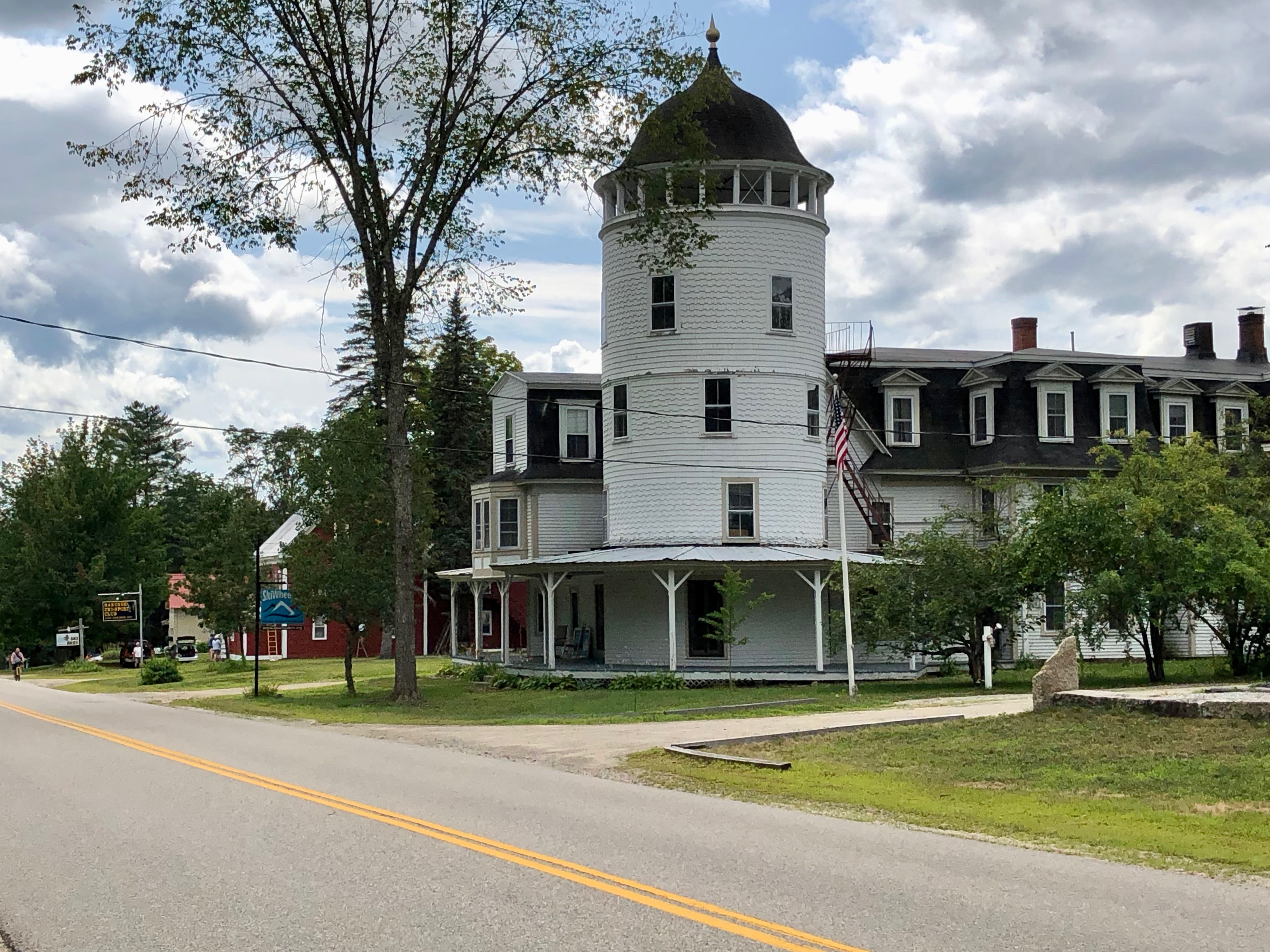 Center of Kearsarge, New Hampshire in the White Mountains